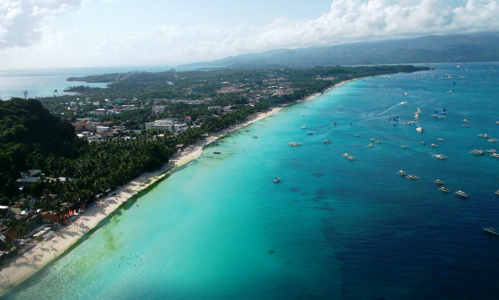 Aerial photo of Boracay's White Beach, Philippines using a small digicam mounted on a home-made radio controlled plane